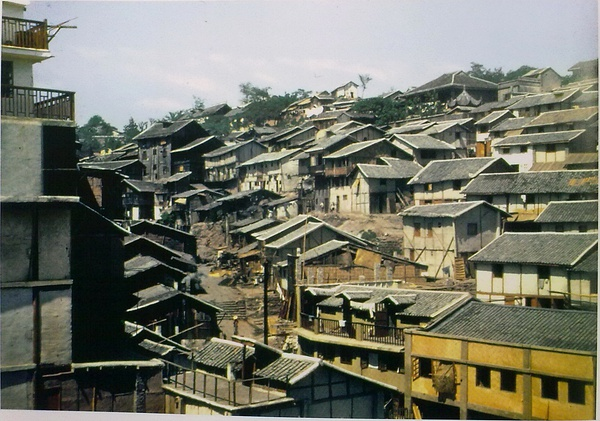 residential areas in Chongqing